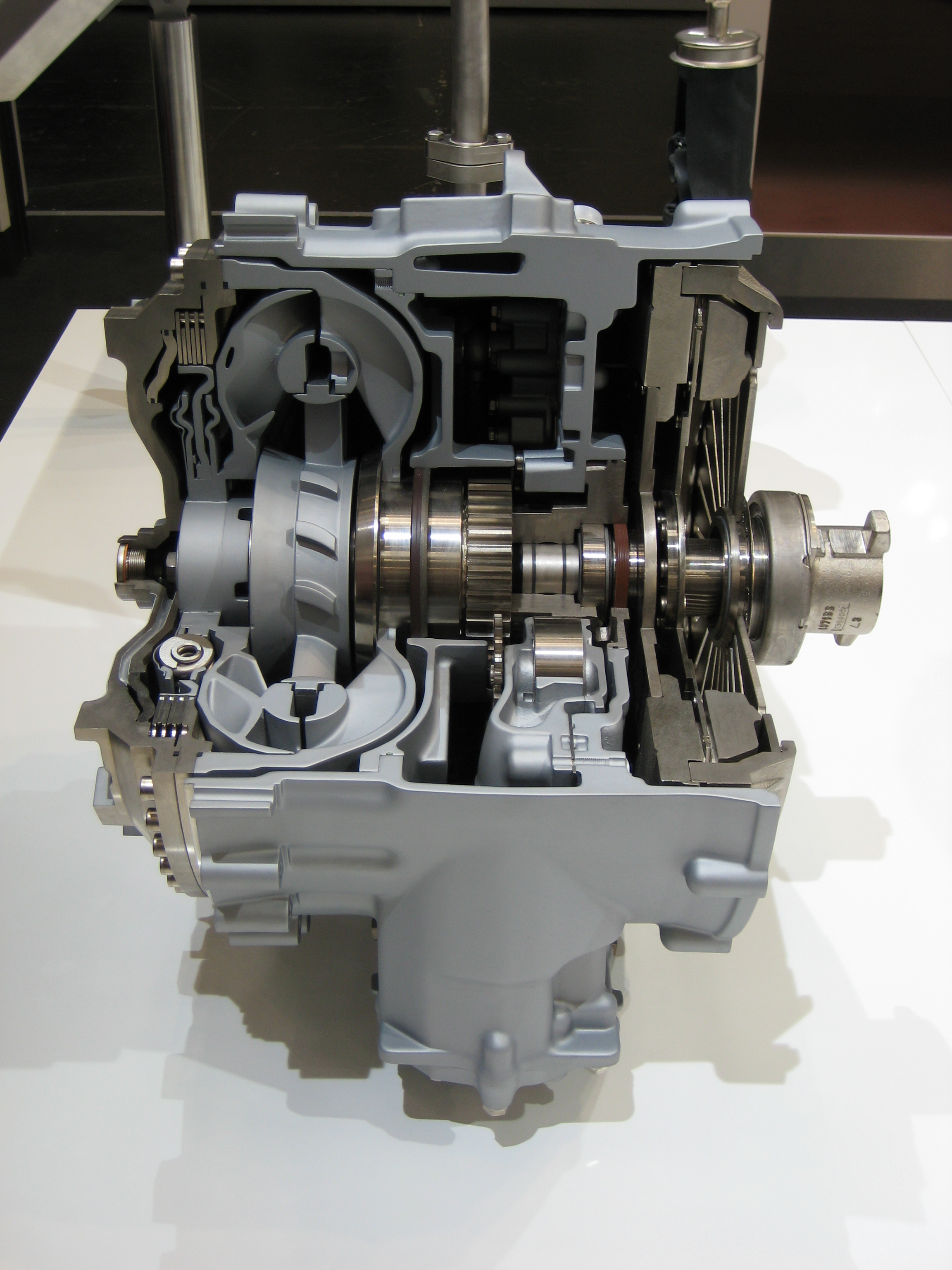 BAUMA 2007, ZF hydraulic drive system